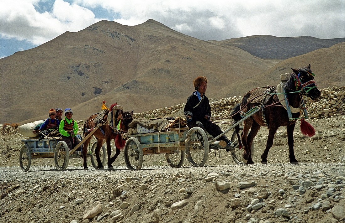 Bicycle-wheeled carts. Zoom in for the repaired wheels.